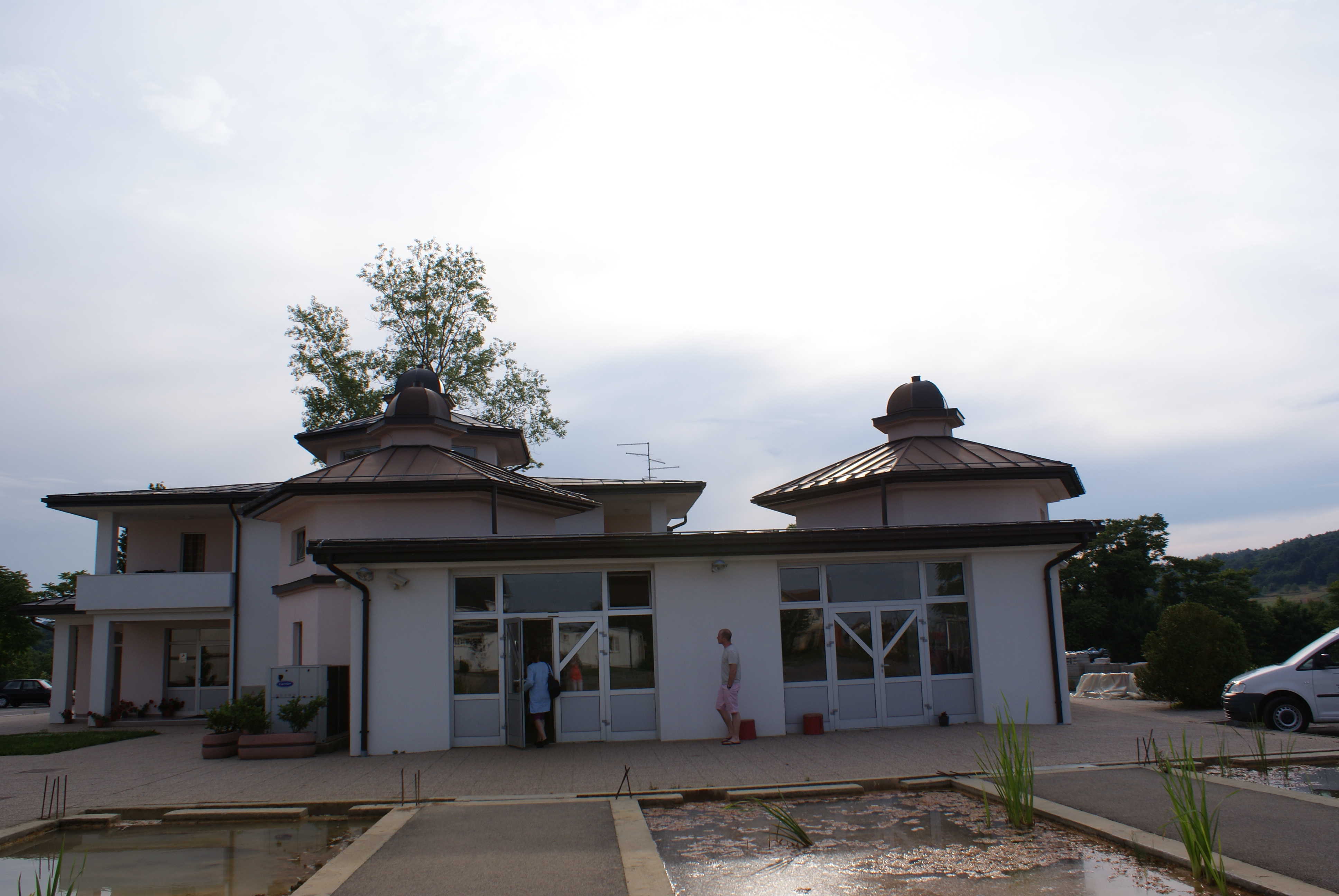 A visit to Slatina Spa